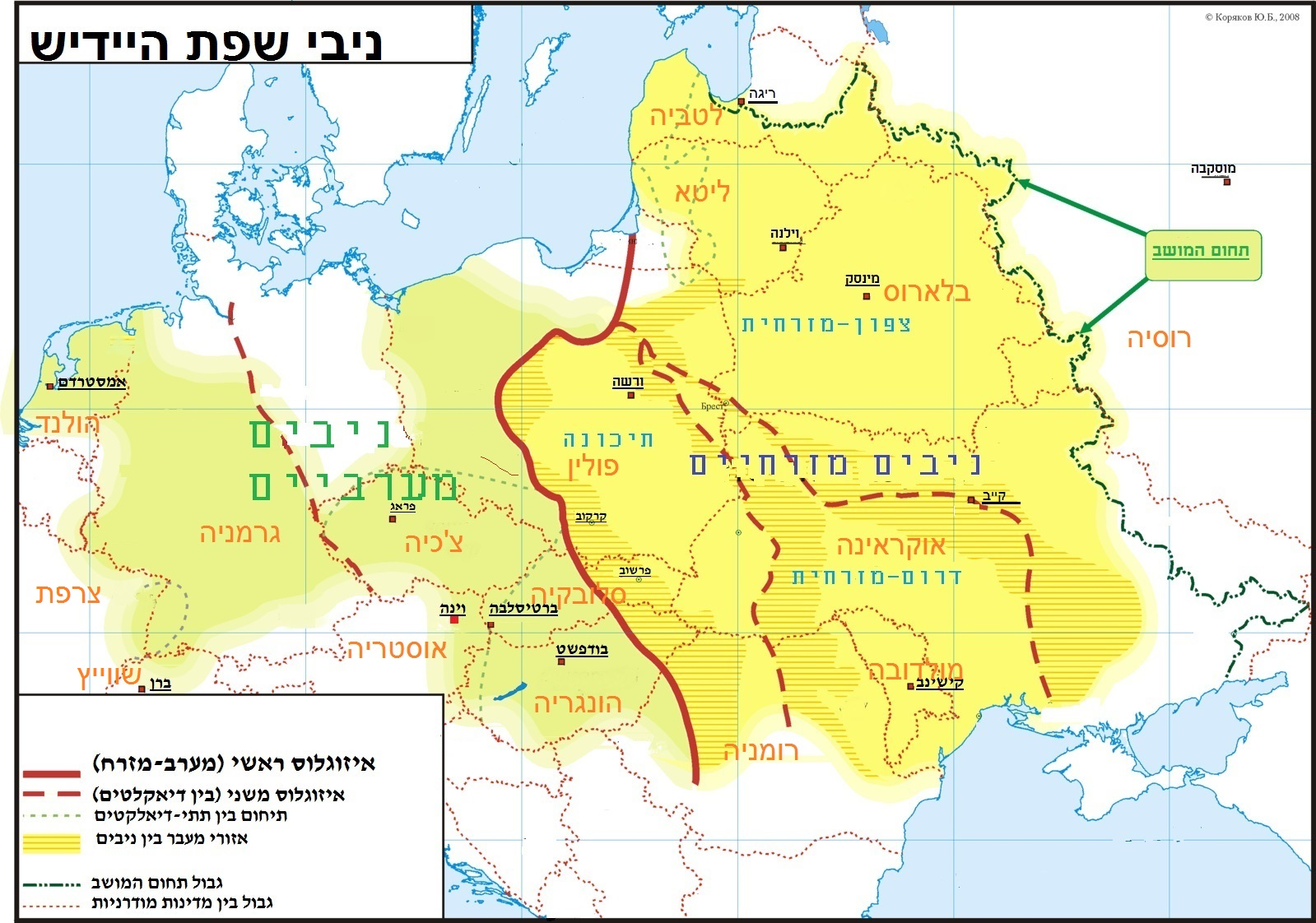 A map of Yiddish dialects, retouched and translated to Hebrew from the original Russian